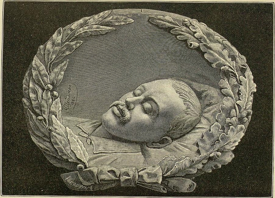 Mikhail Lermontov. Deathbed portrait